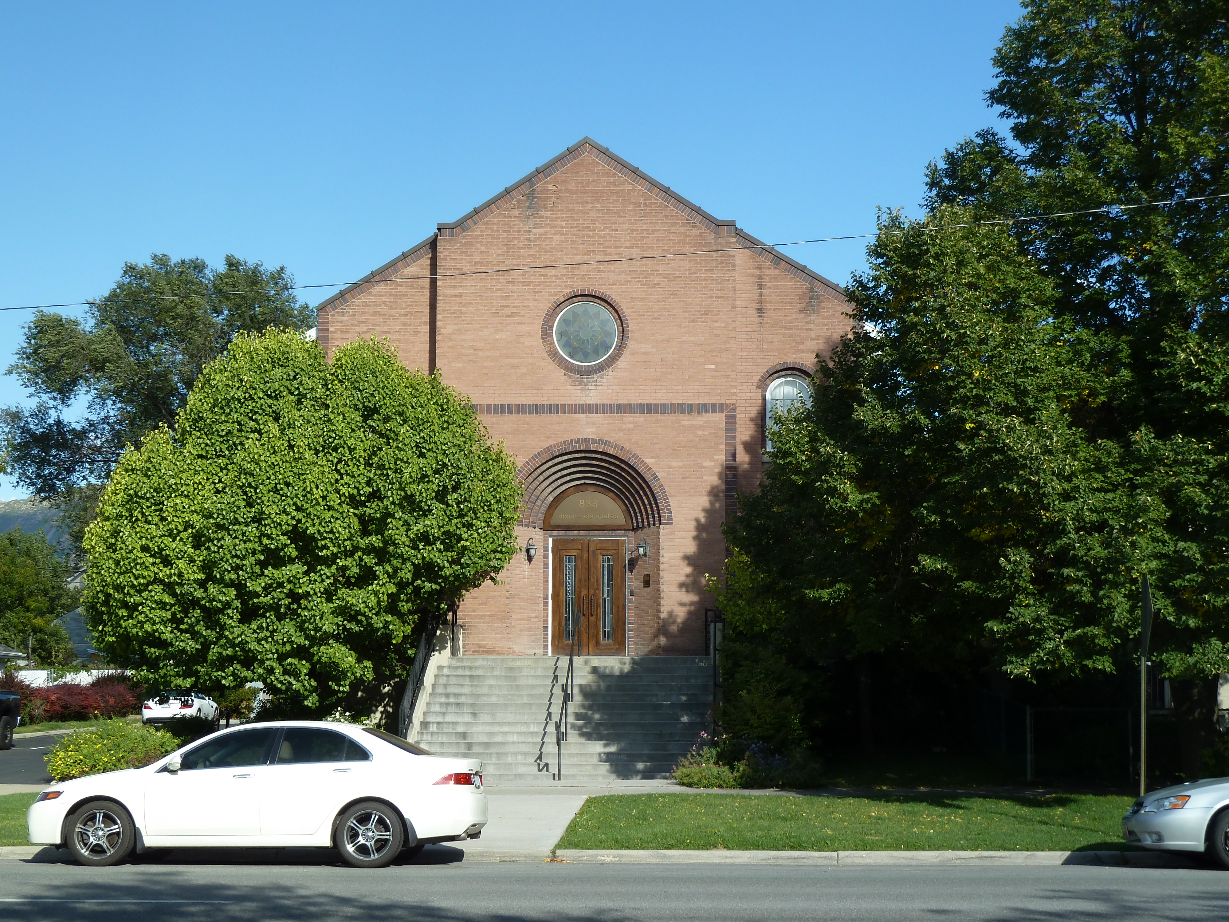 Congregation Sharey Tzedek Synagogue, 833 S. 200 East Central City